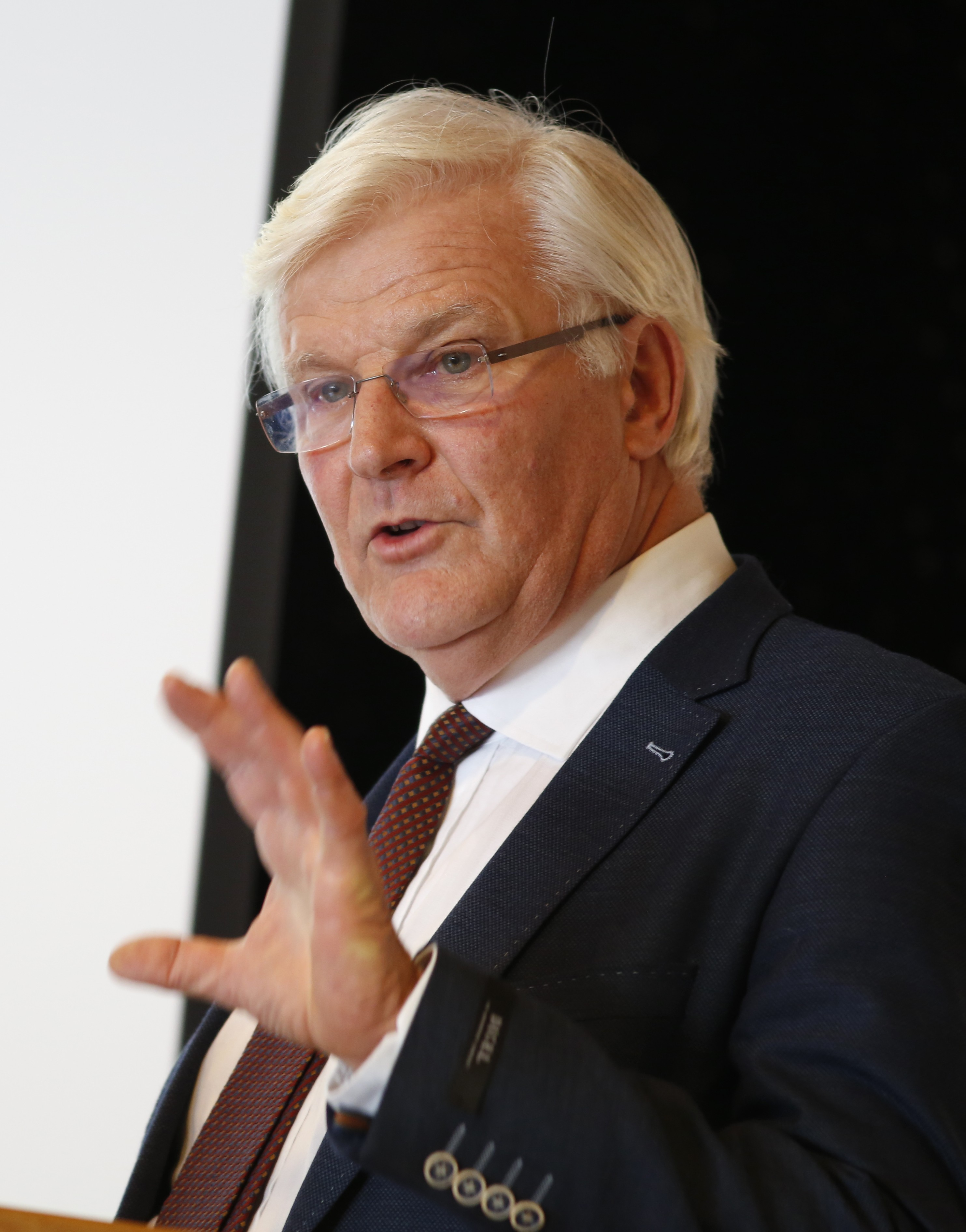 NordForsk -The future Nordic Co-operation on Health conference Voksenåsen Oslo, February 4 2015: Werner Christie, former Minister of Health, Norway Photo: Terje Heiestad